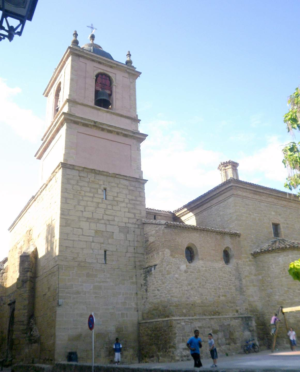 Iglesia de San Pedro, Puente la Reina (Navarra)